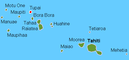 Location of Tupai within Society Islands, French Polynesia